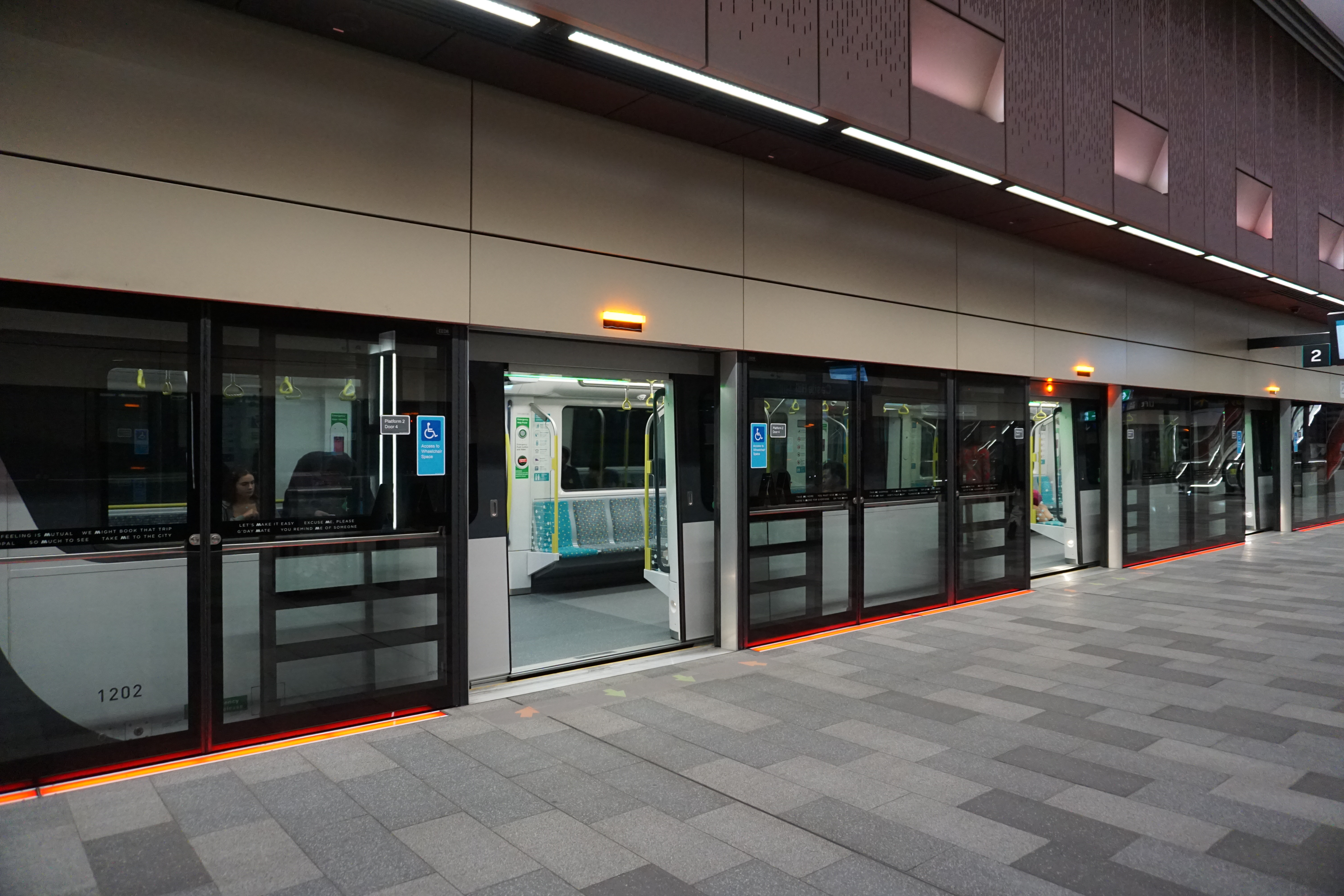 Castle Hill Metro Station